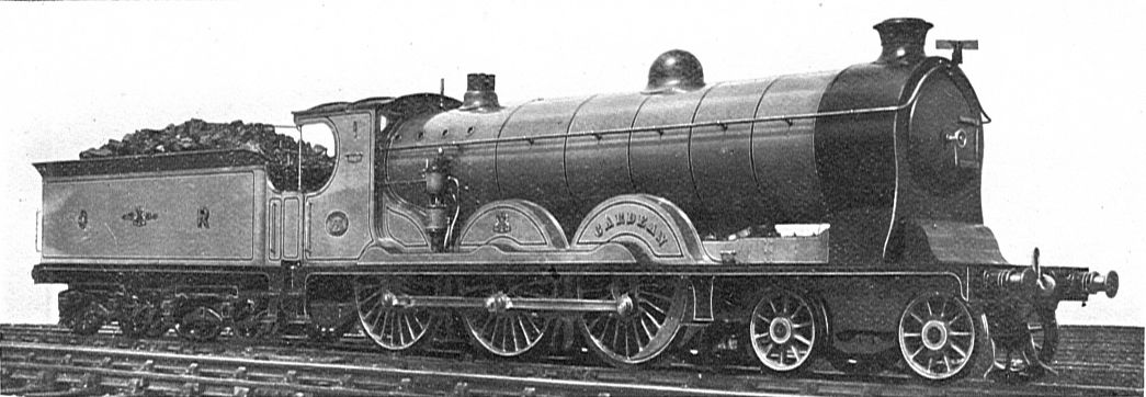 Fig. 2 "The Allies" Engines employed in the West Coast Anglo-Scottish Services Caledonian 'Cardean'